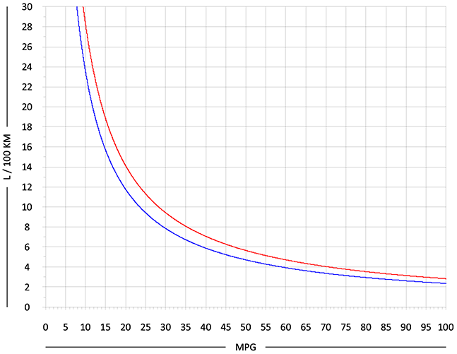 Convertion MPG to L/100KM Red: Imperial gallon (UK) Blue: Liquid gallon (US)